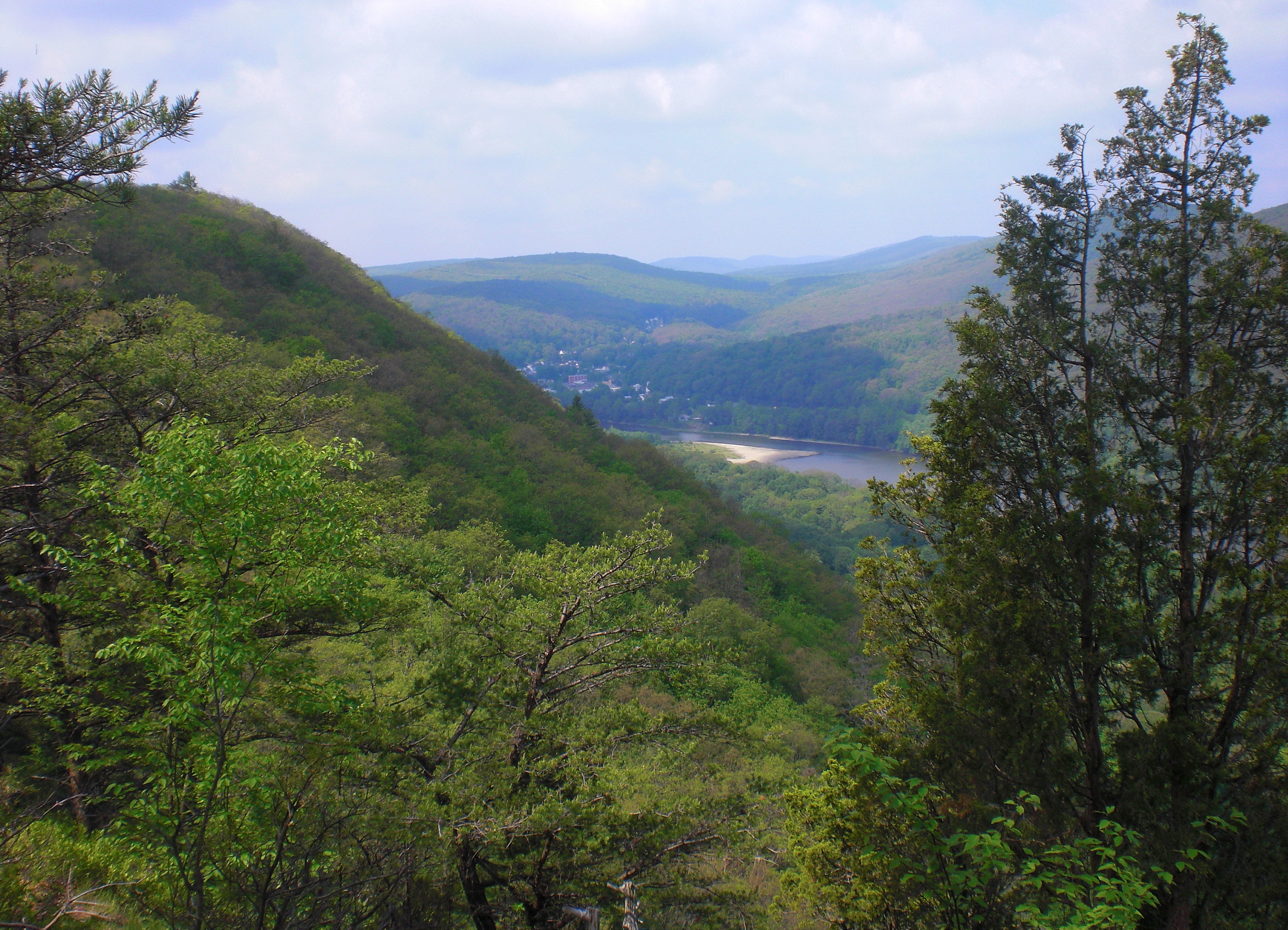 West-central Luzerne County, Pennsylvania from the Mocanaqua Loop Trail in Conyngham Township.